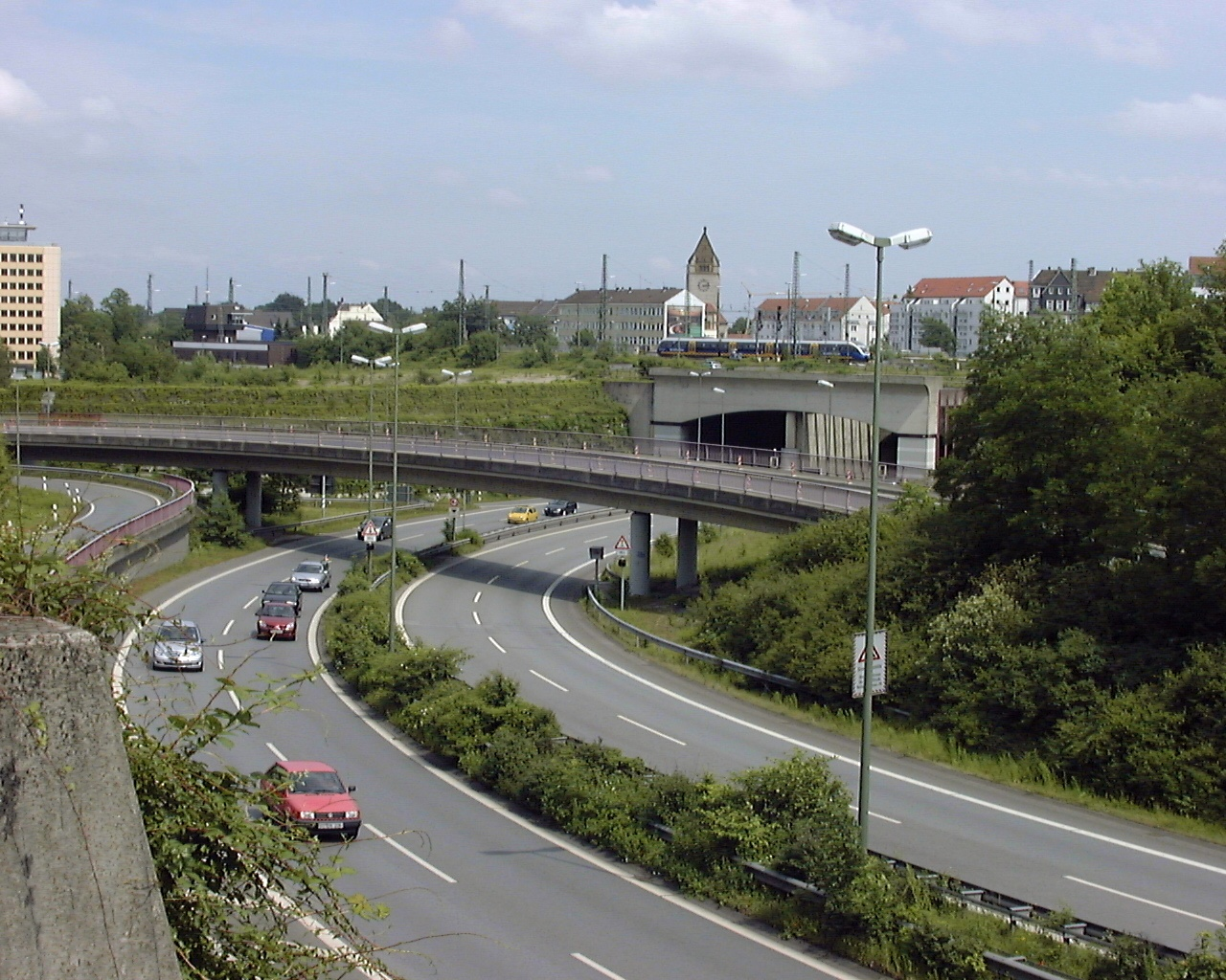 Bielefeld, Germany: Western gateway of the Ostwestfalentunnel, on the left the drive-up “Ernst-Rein-Straße”.